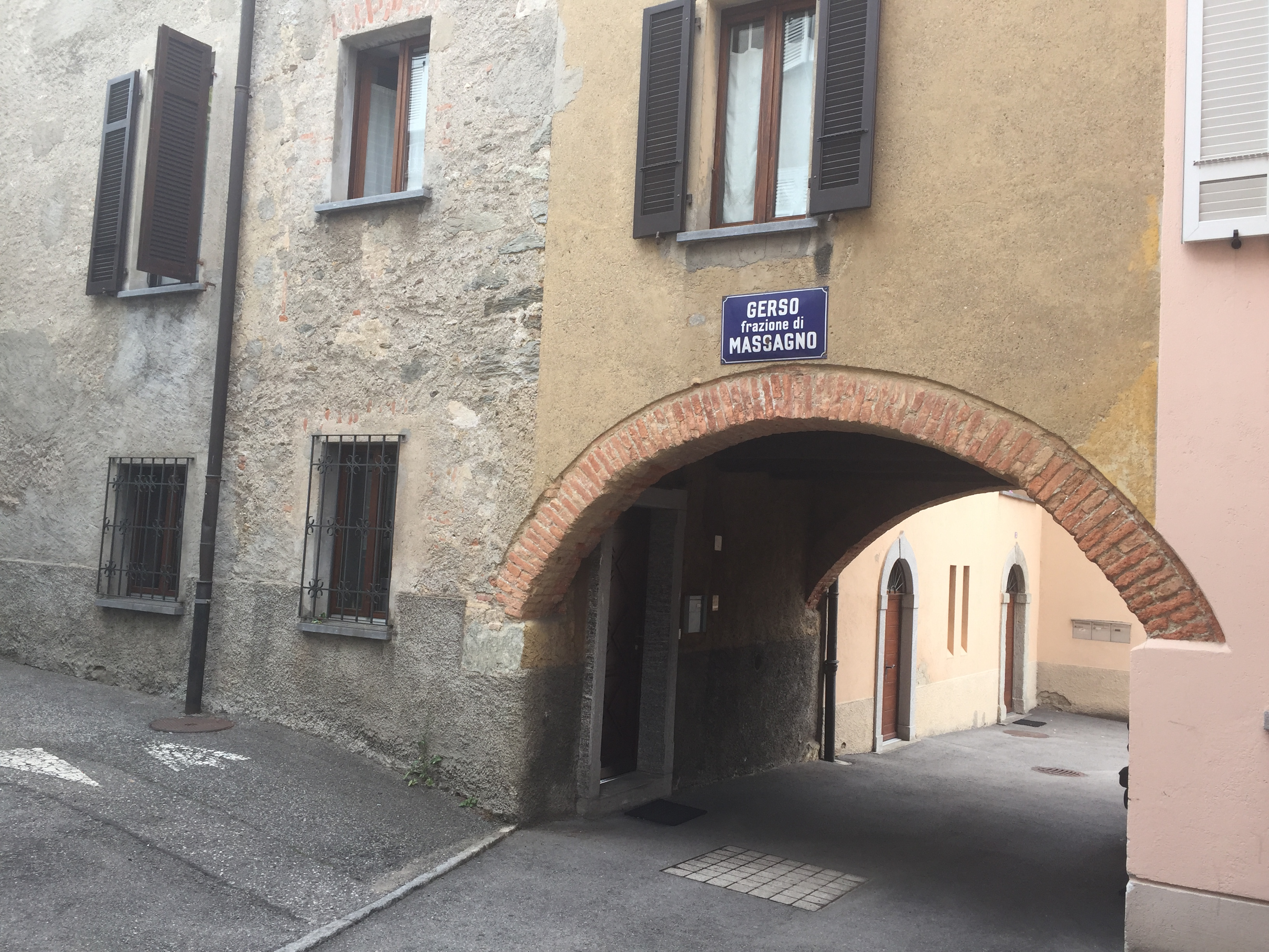 There are a few old houses left, of Gerso. In medieval times, Gerso was a village independent of Massagno. Both villages were united under the name Massagno.